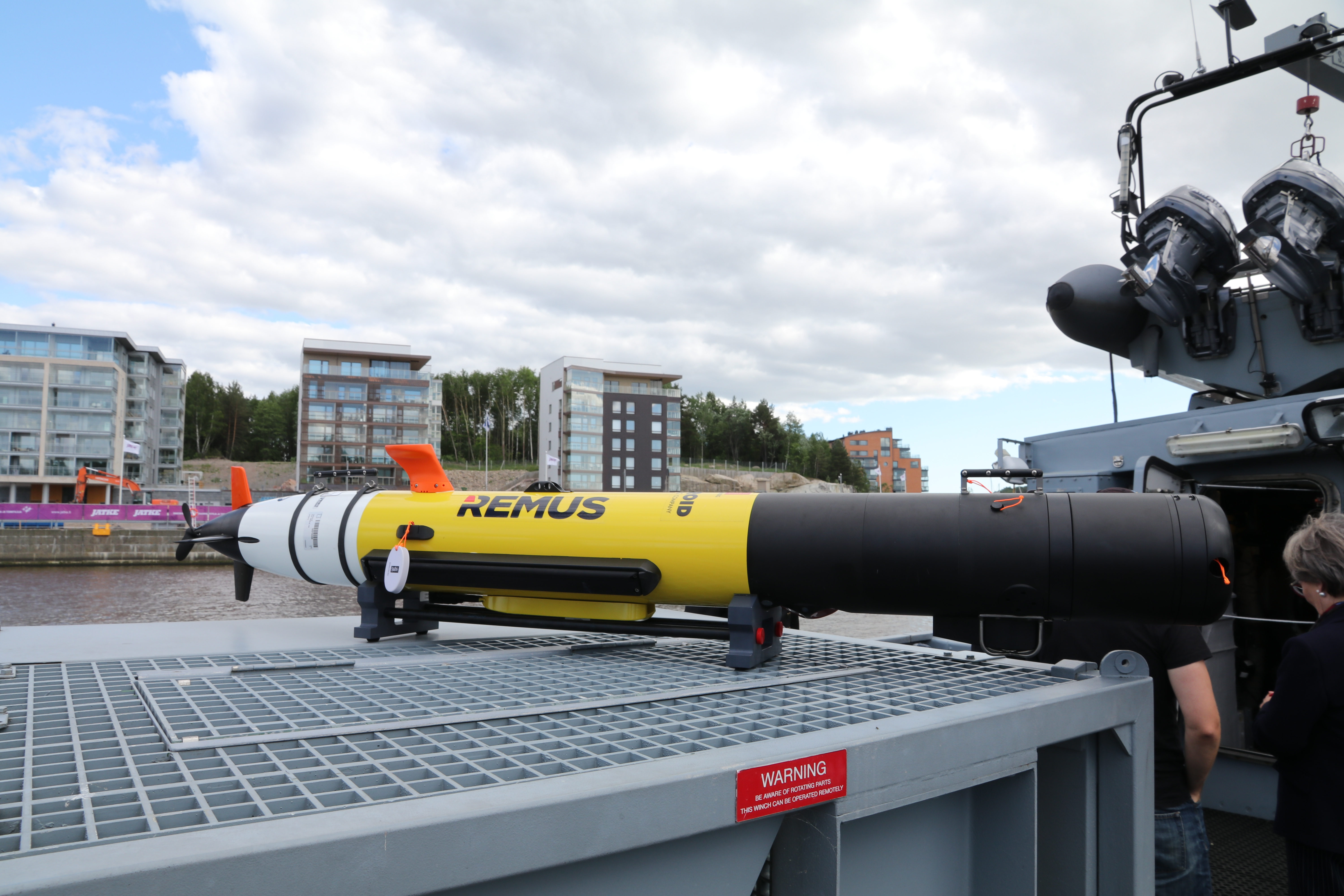 REMUS 100 AUV onboard Finnish navy mine countermeasure vessel Katanpää. Photographed in 2016 Finnish defence forces flag day equipment exhibition in Turku Forum Marinum.